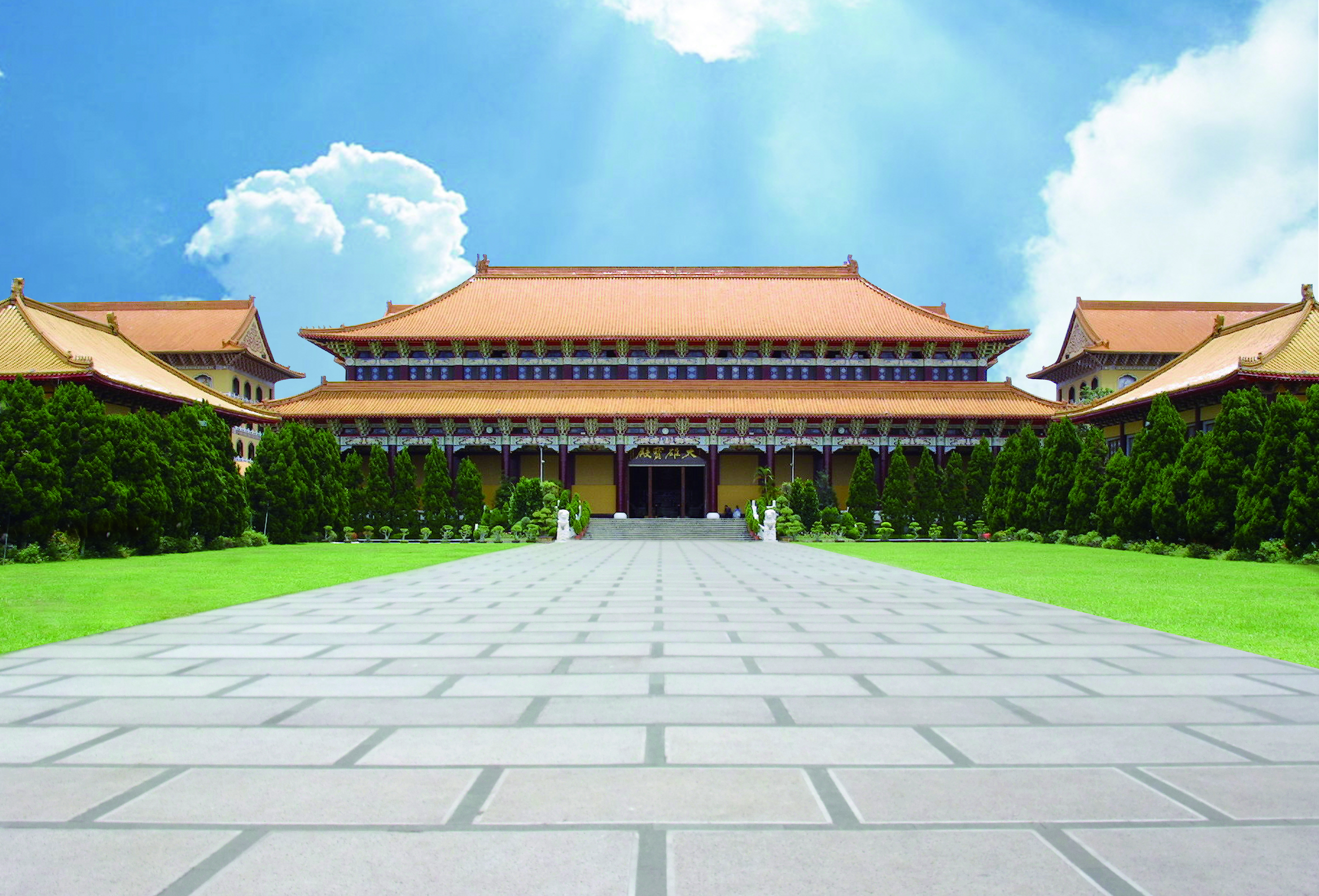 This is the spiritual core of the Monastery, with all important religious services held here.